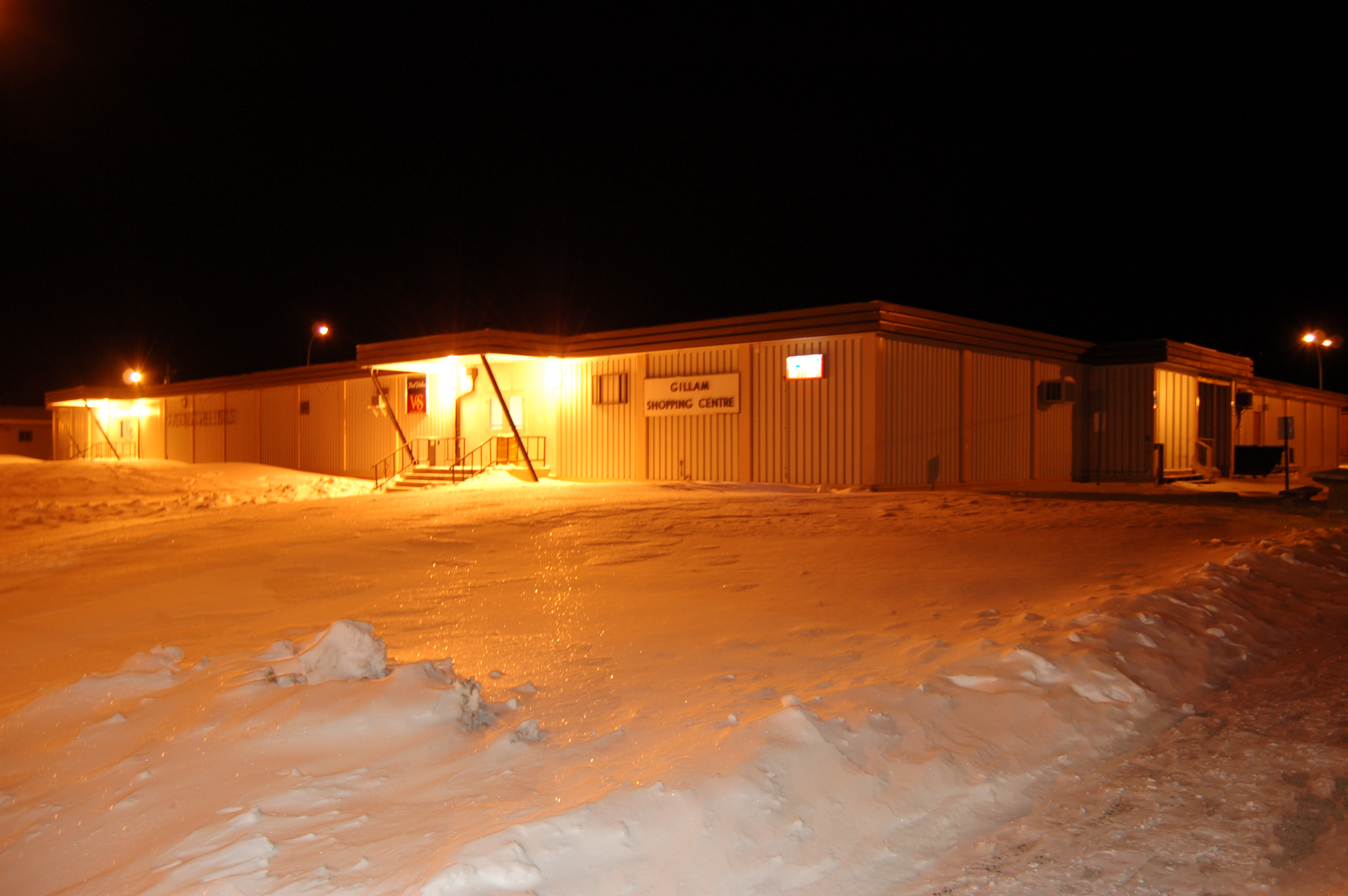 The shopping center at Gillam in the snow